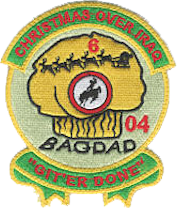 187th Airlift Squadron Operation - OIF - 2004 - Emblem